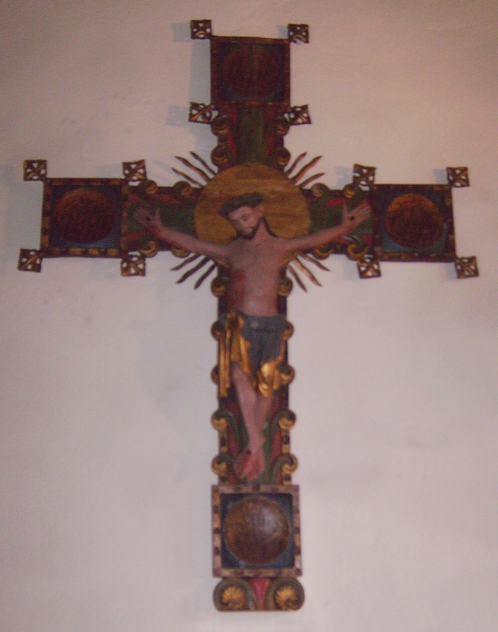 Styrstad church, outside Norrköping. Diocese of Linköping.